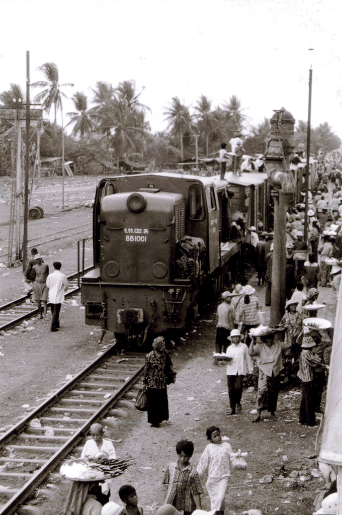 Train in Cambodia